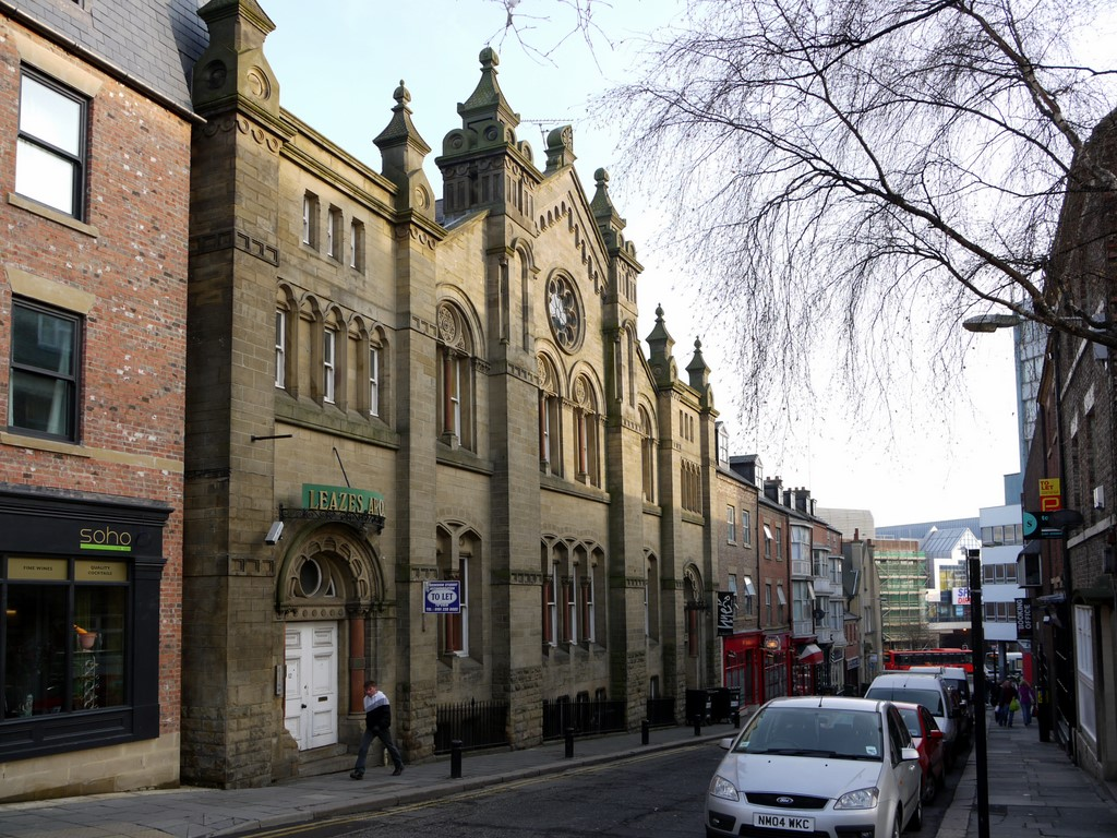 View southeast down Leazes Park Road, Newcatle-upon-Tyne, England. The sandstone building occupying most of this view is Leazes Arcade, which was built in 1880 as a synagogue.